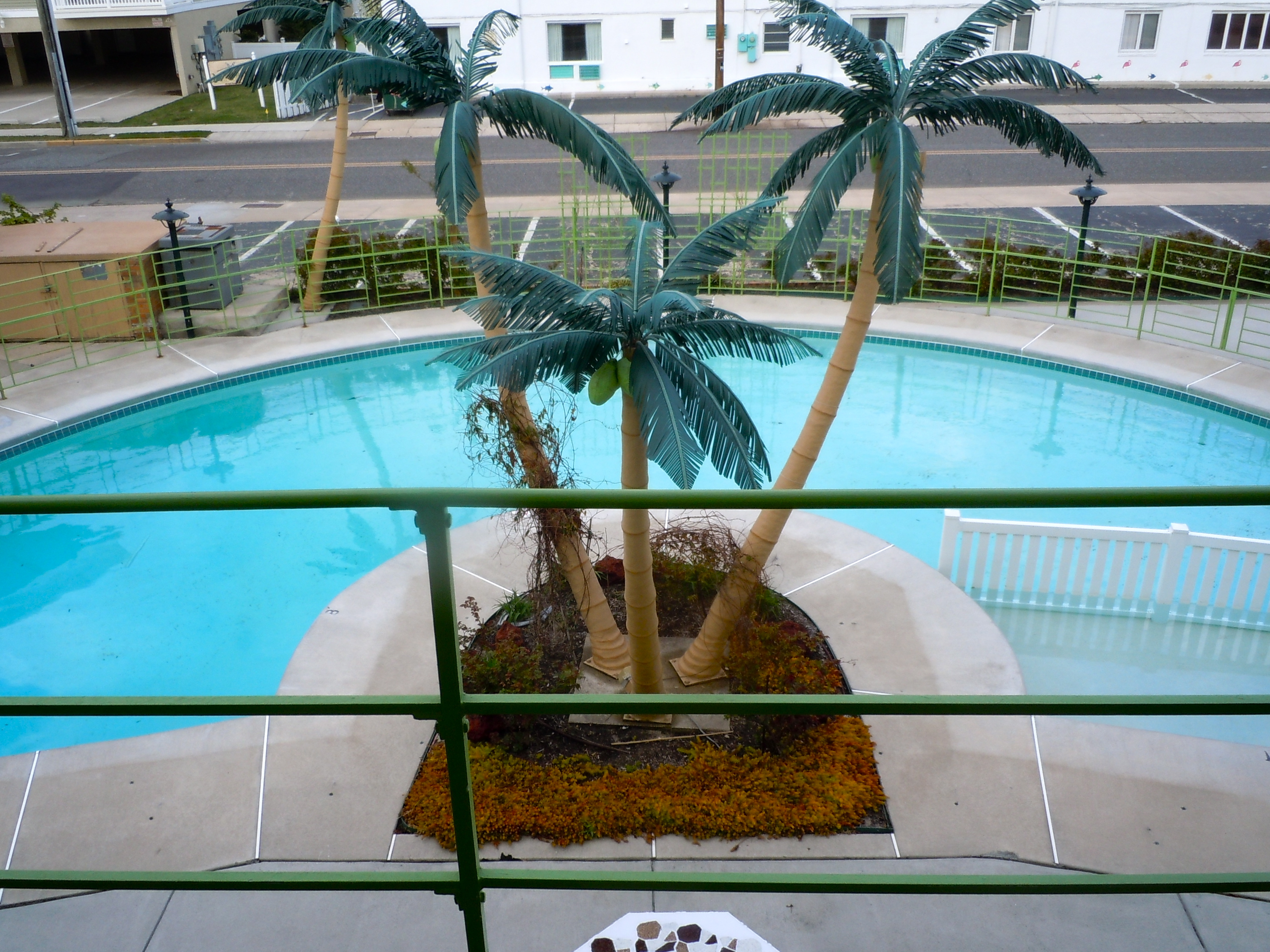 Caribbean Motel on NRHP since August 24, 2005. At 5600 Ocean Ave. in Wildwood Crest (south of Wildwood), New Jersey in Cape May County. Built 1958 in a distinctive modern (Las Vegas? Jetsons?) style, aka Googie style, or locally "Doo-Wop". "C" shaped swimming pool taken from the 2nd floor balcony, photographer facing north. Note the plastic palm trees- typical of the Doo Wop style